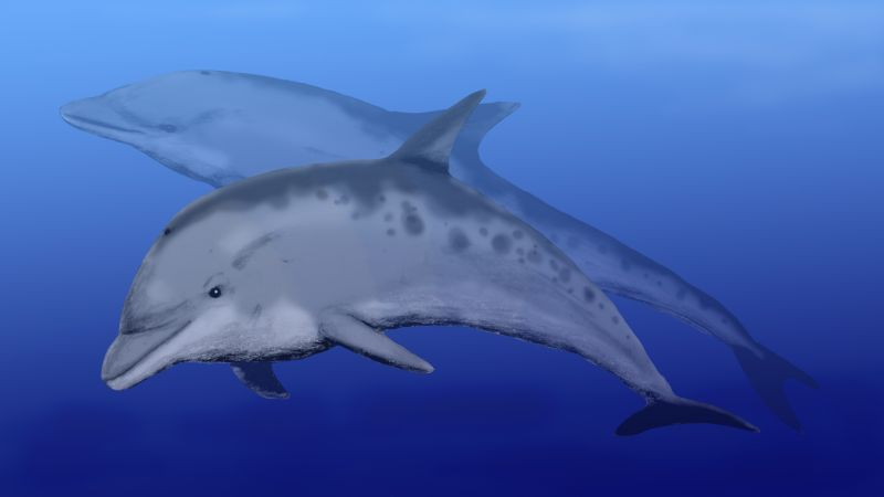 Kentriodon pernix, an odontocete dolphin-like whale from the Miocene, pencil drawing, digital coloring